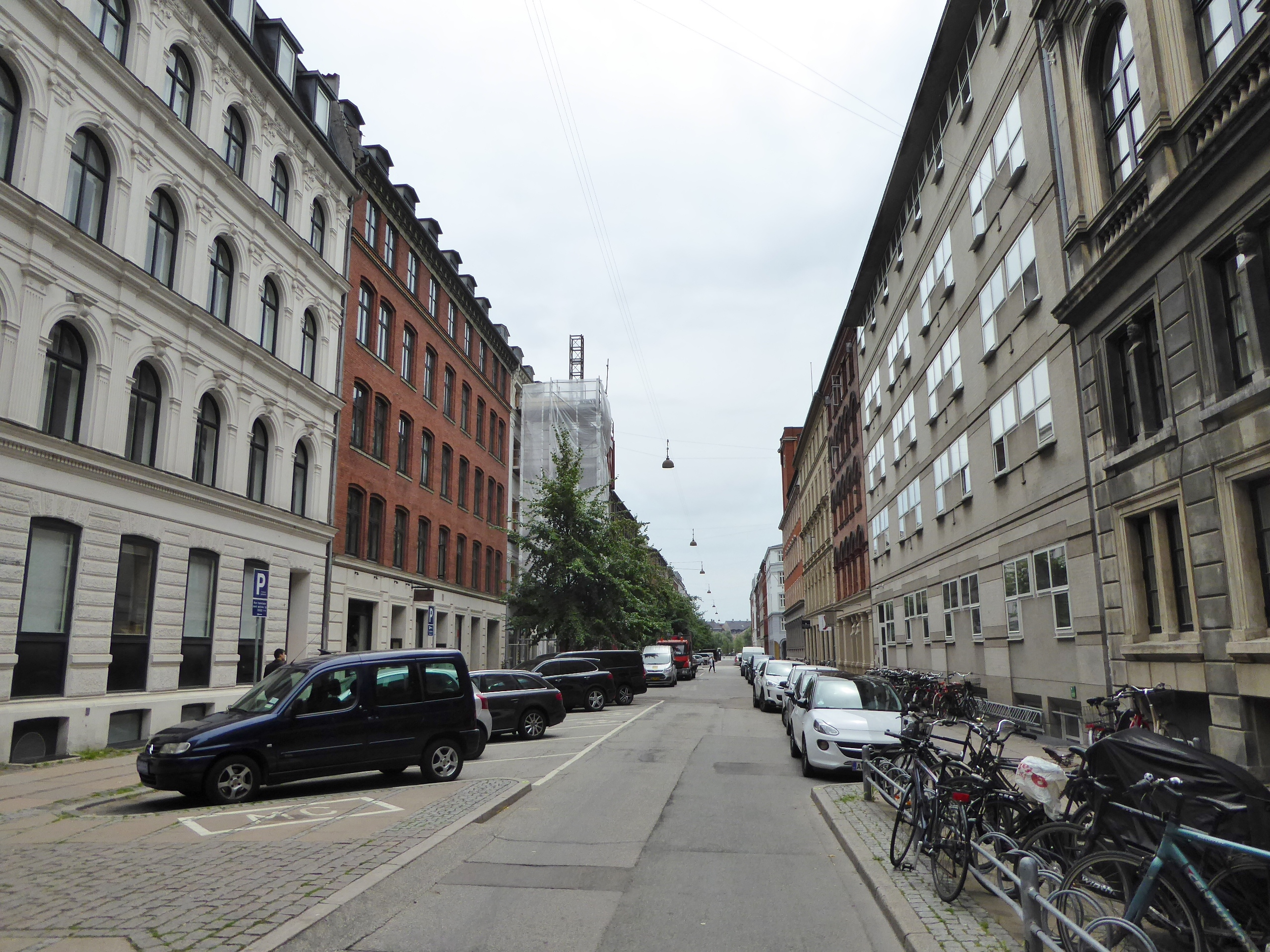 The street Tordenskjoldsgade in Indre By in Copenhagen.